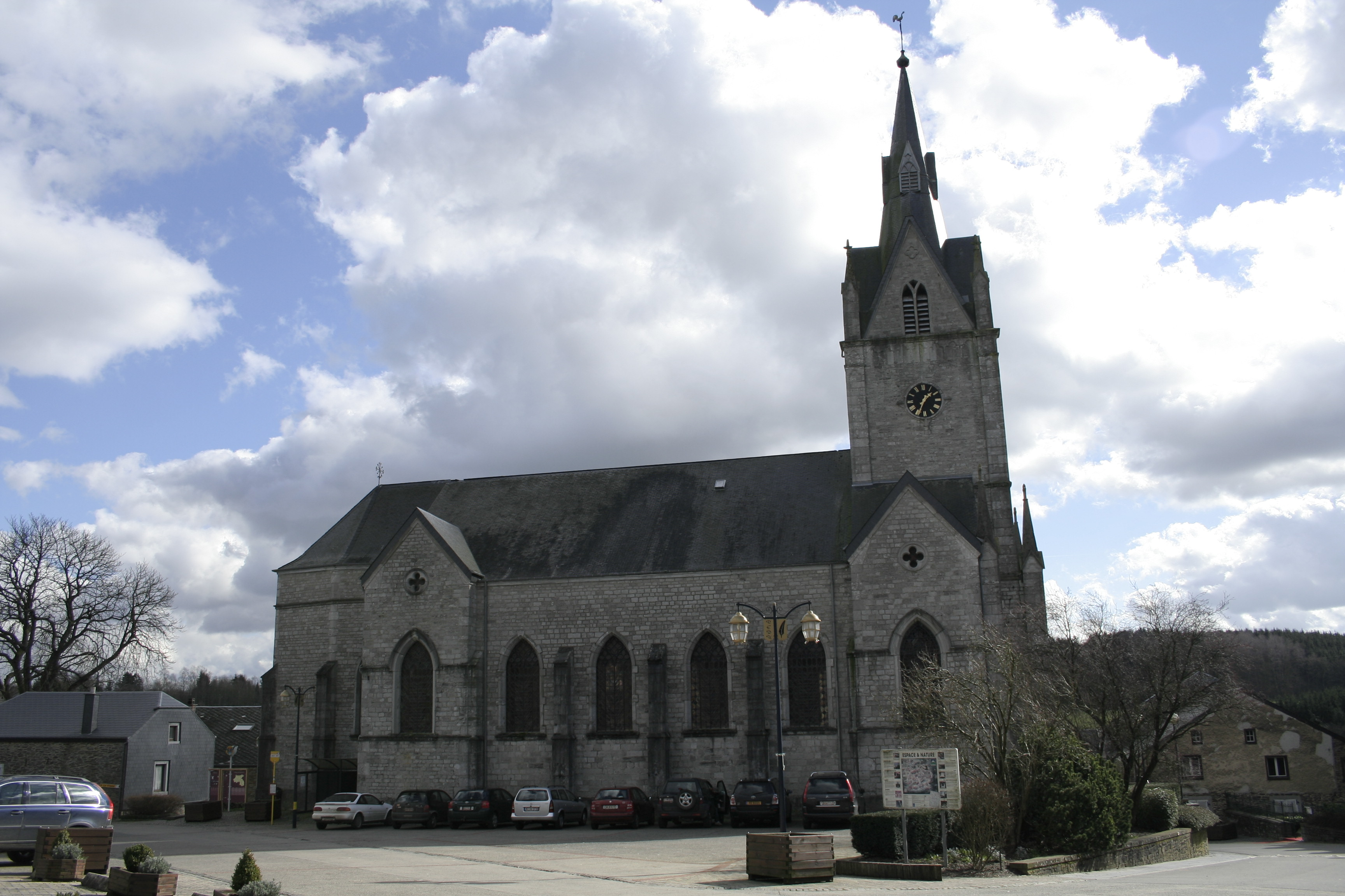 Redu (Belgium), the St. Hubert church (1850-1851).